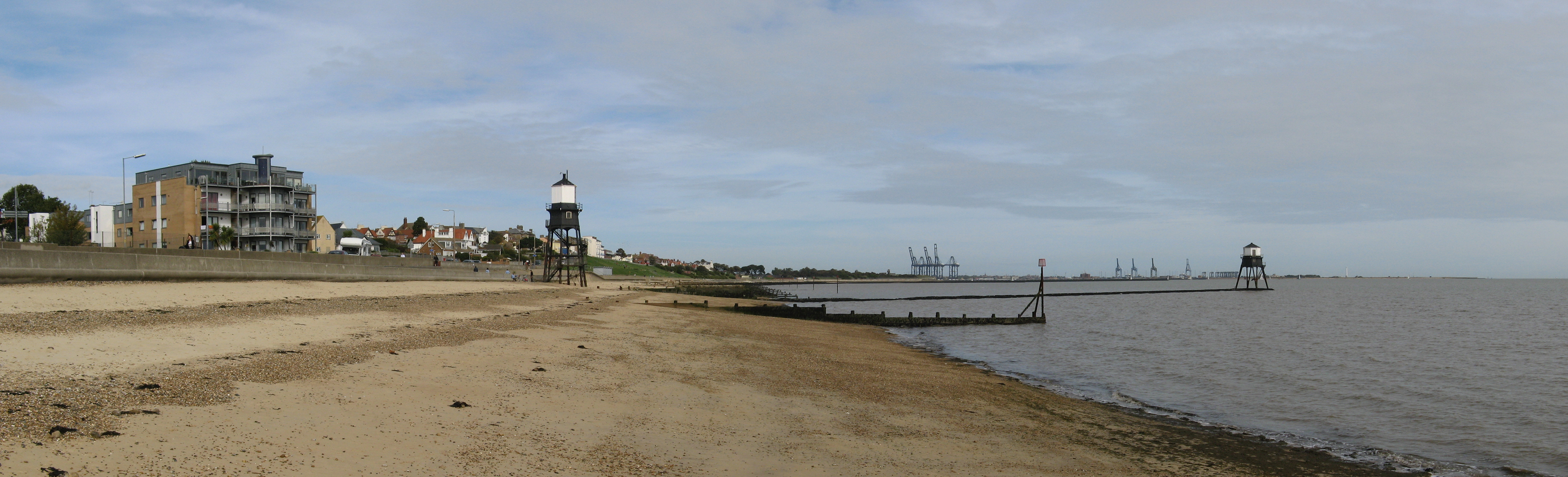 Dovercourt lighthouses. Erected by Trinity House in 1863 using cast iron, they were used until 1917, guiding ships around Landguard Point with their powerful gas lamps. When a ship saw the two lights aligned, it was on the right course. The deep-water channel is now marked by buoys.[1] Sometimes known as Dovercourt Range Lights.[2] Port of Felixstowe cranes can be seen in the distance.